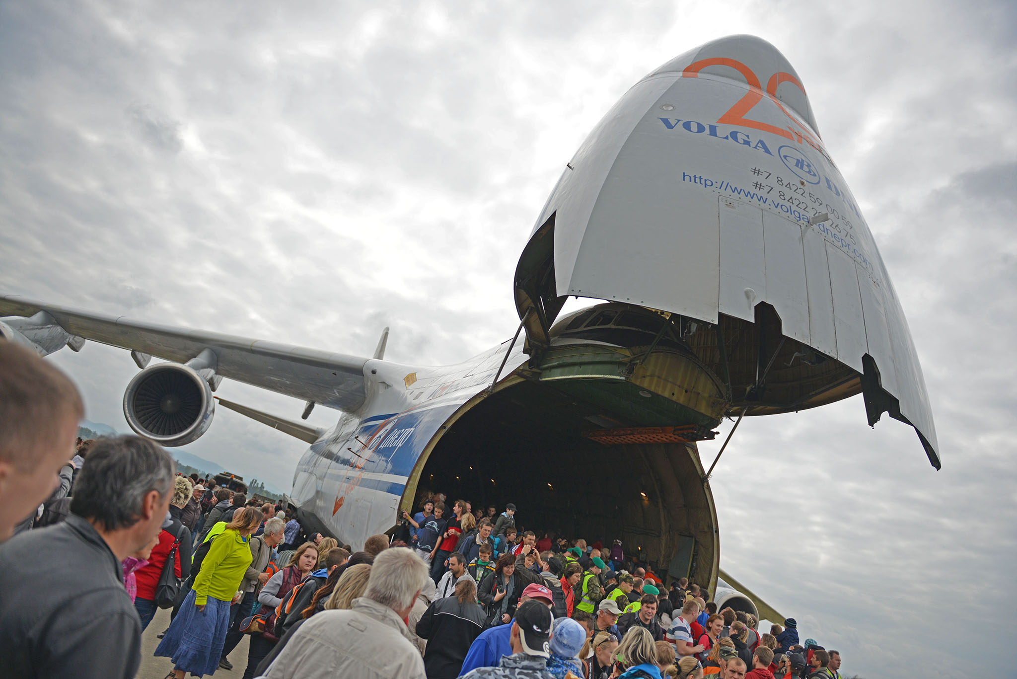 An-124 Ruslan during NATO Days in Ostrava, Czech Republic, 2013 . Giant transport aircraft